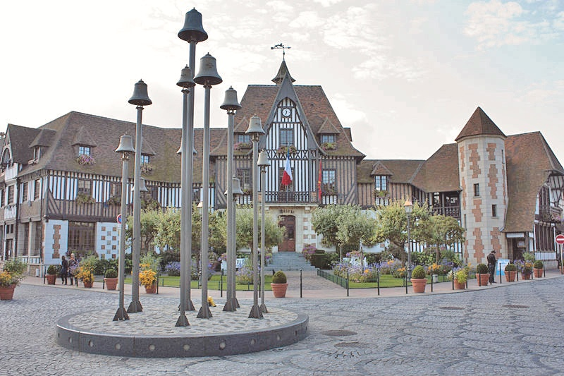 Townhall and bells.